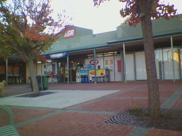 The IGA at 4 Riley Close, Ngunnawal, ACT.